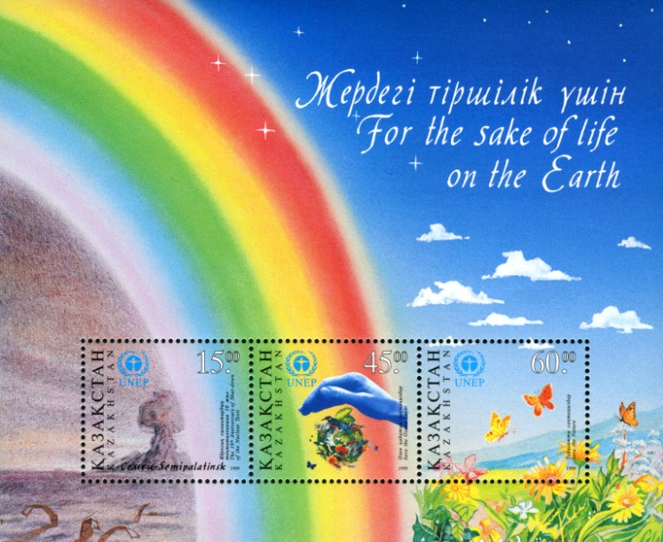 Stamp of Kazakhstan